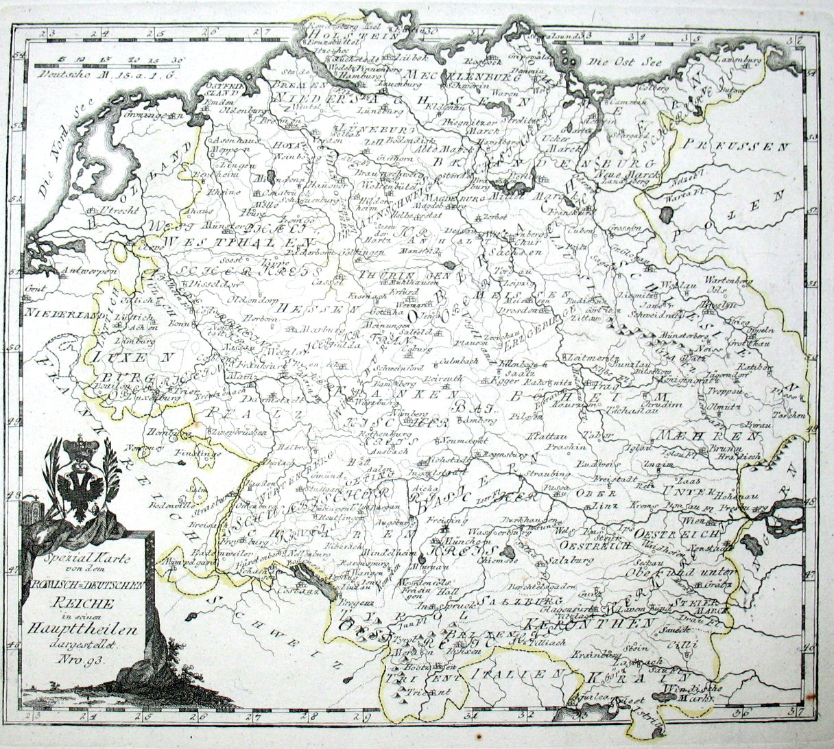 Map of the Holy Roman Empire (boundaries in yellow).